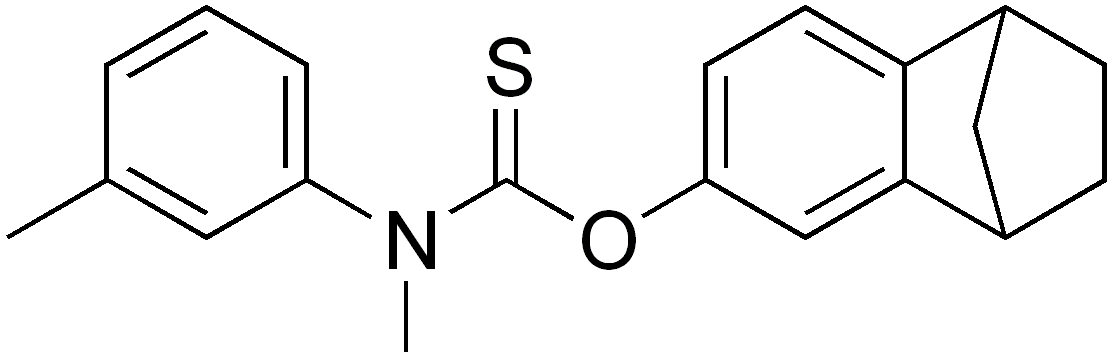 chemical structure of tolciclate